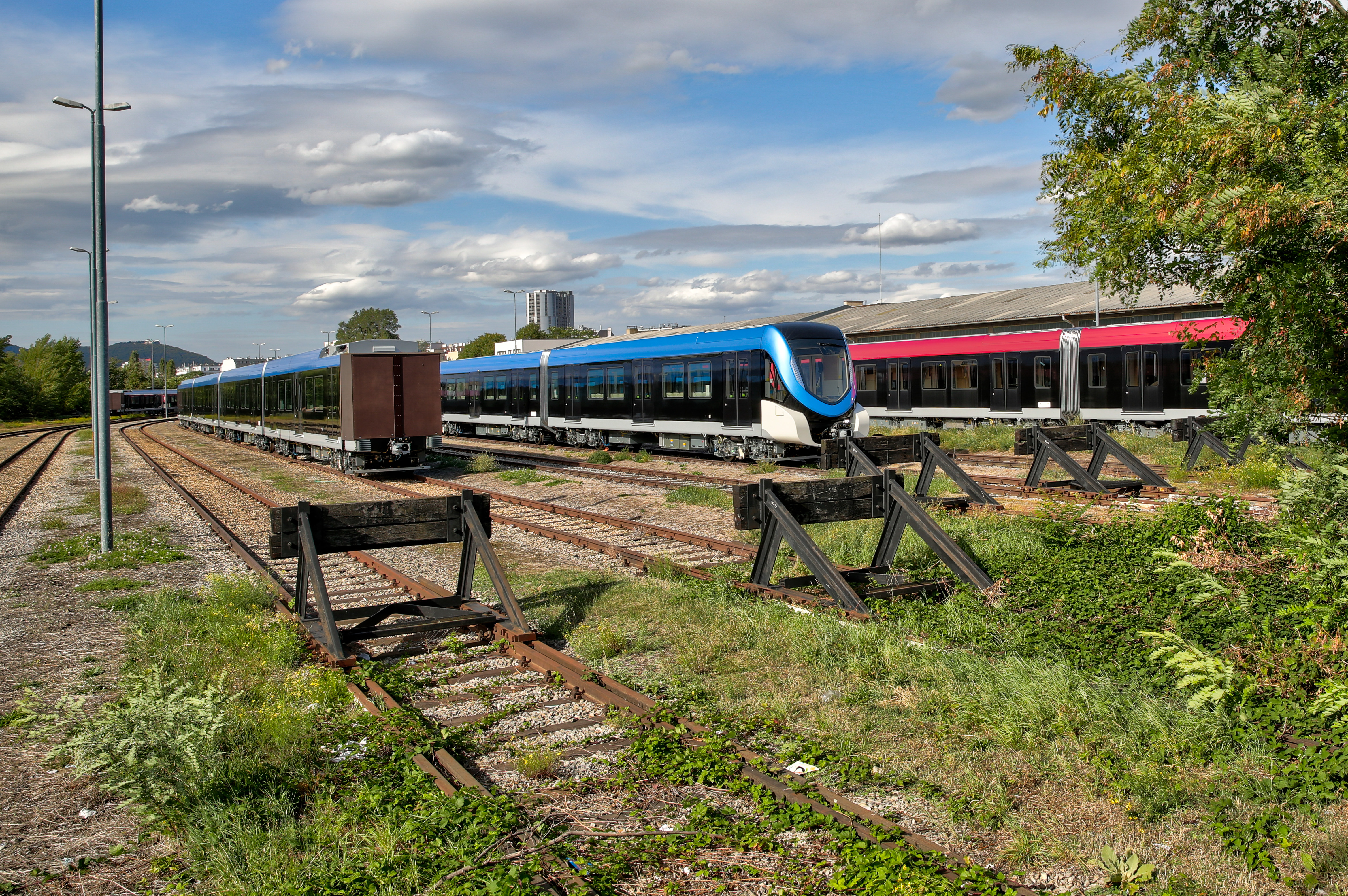 The Northwest Railway Station in Brigittenau, the XX. district of Vienna / Austria / EU. At this time were at the station in Vienna built by Siemens metro cars for the subway in Riyadh, Saudi Arabia. Location of the photograph at about Wallensteinstraße, at the end of Lagerstraße 1.